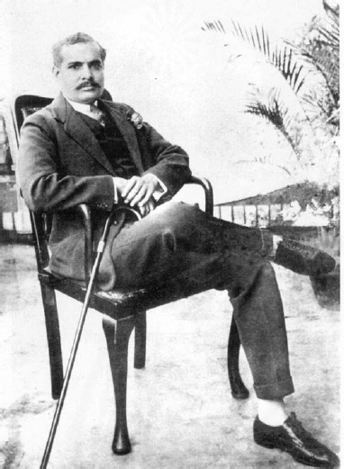 Dada Lekhraj during the twenties